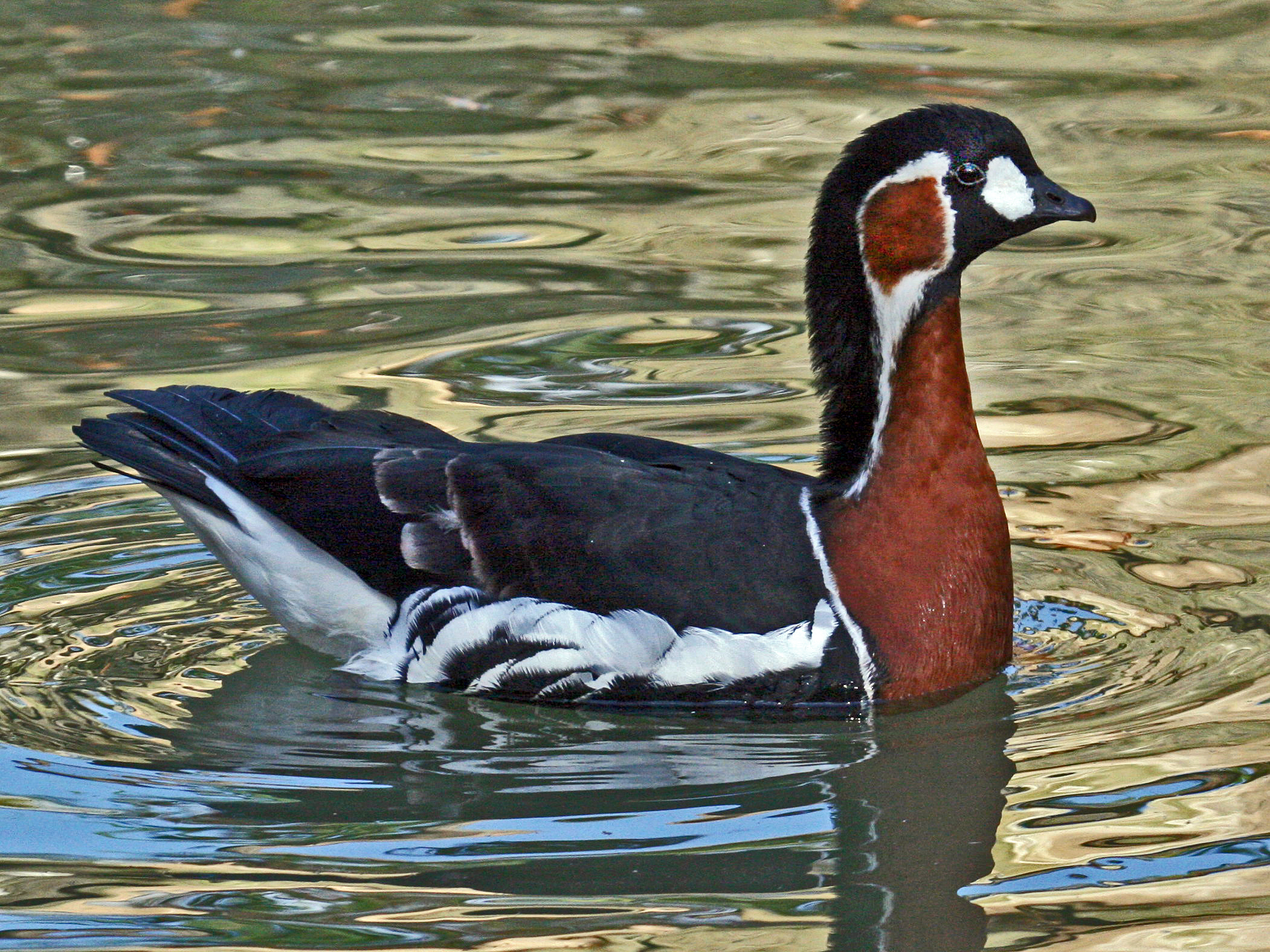 Red-breasted Goose (Branta ruficollis) at Sylvan Heights Waterfowl Park in Scotland Neck, North Carolina.